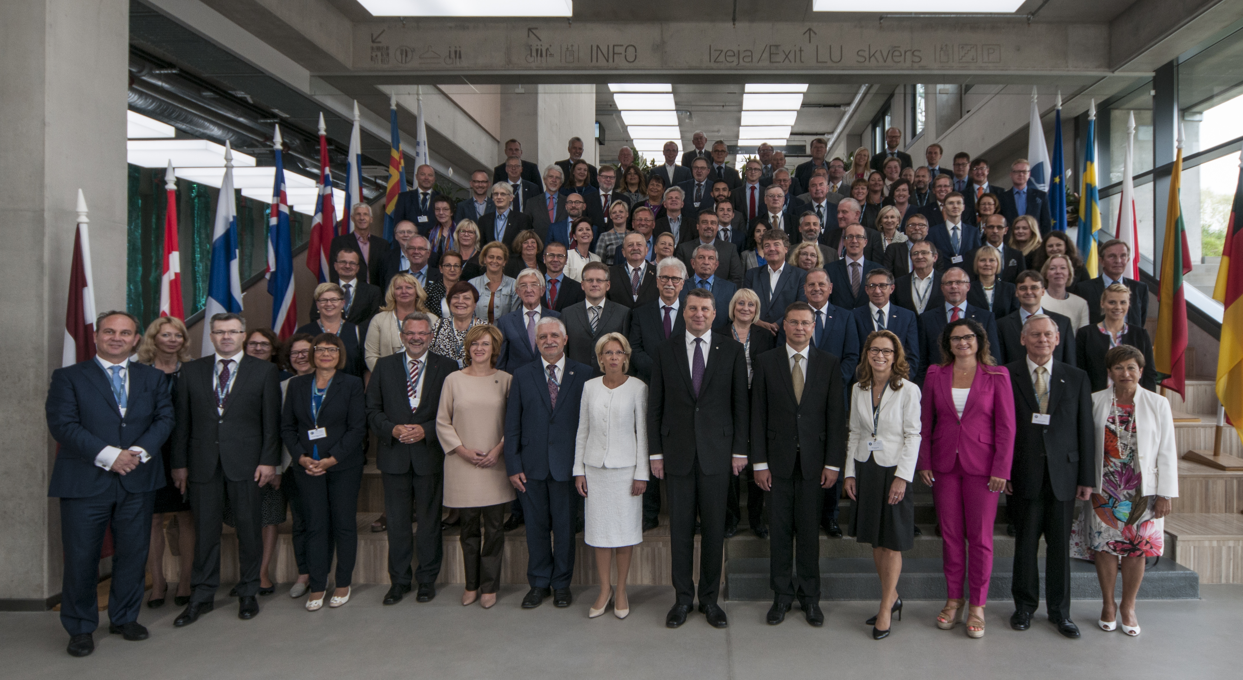 Family Photo BSPC in Riga